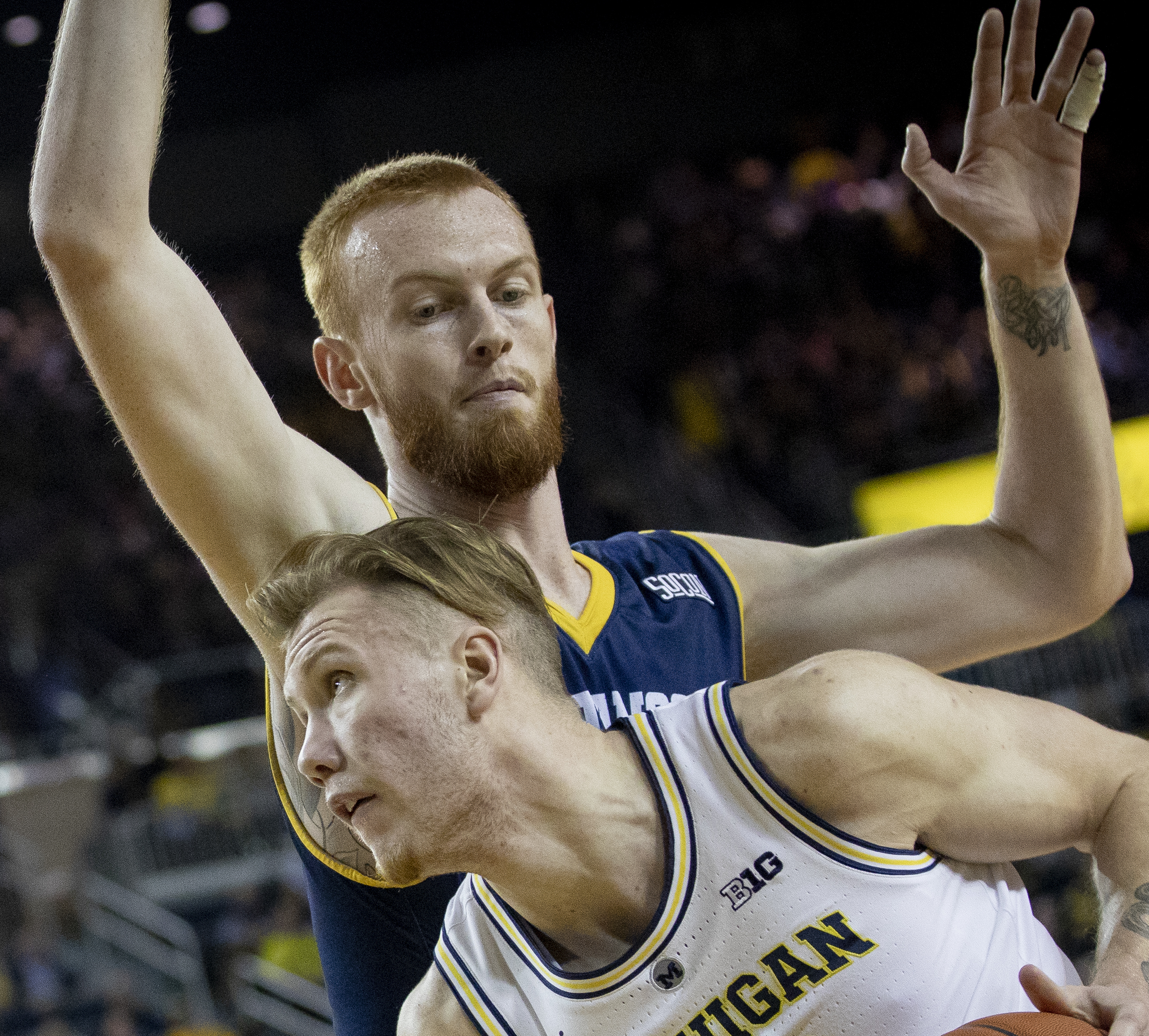 Ignas Brazdeikis Thomas Smallwood